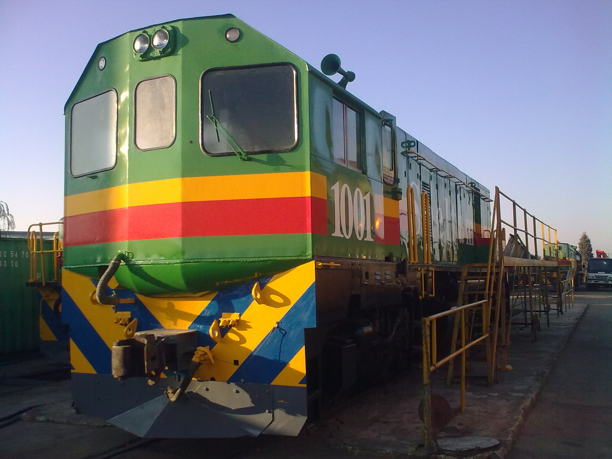 Sheltam's GE-built G18U diesel-electric locomotive Ex Sheltam no 20, Bank Colliery 003 Builder's no: GE 748032.1/1976